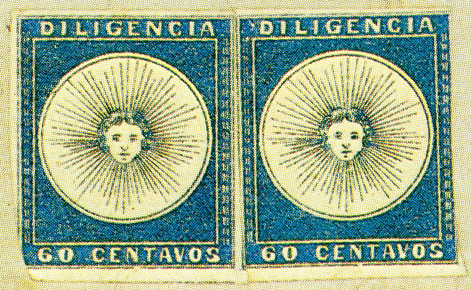 Pair of the DILIGENCIA issue, type II issued in 1857, 60 Centésimos, unused, from a cover to SALTO. Michel N°4.